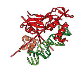 The structure of the T box DNA binding domain, showing how the transcription factor binds to DNA